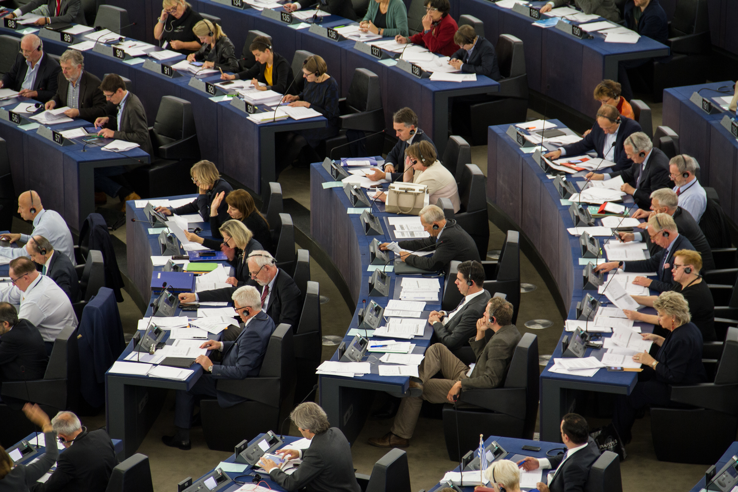 Hemicycle of the European Parliament in Strasbourg